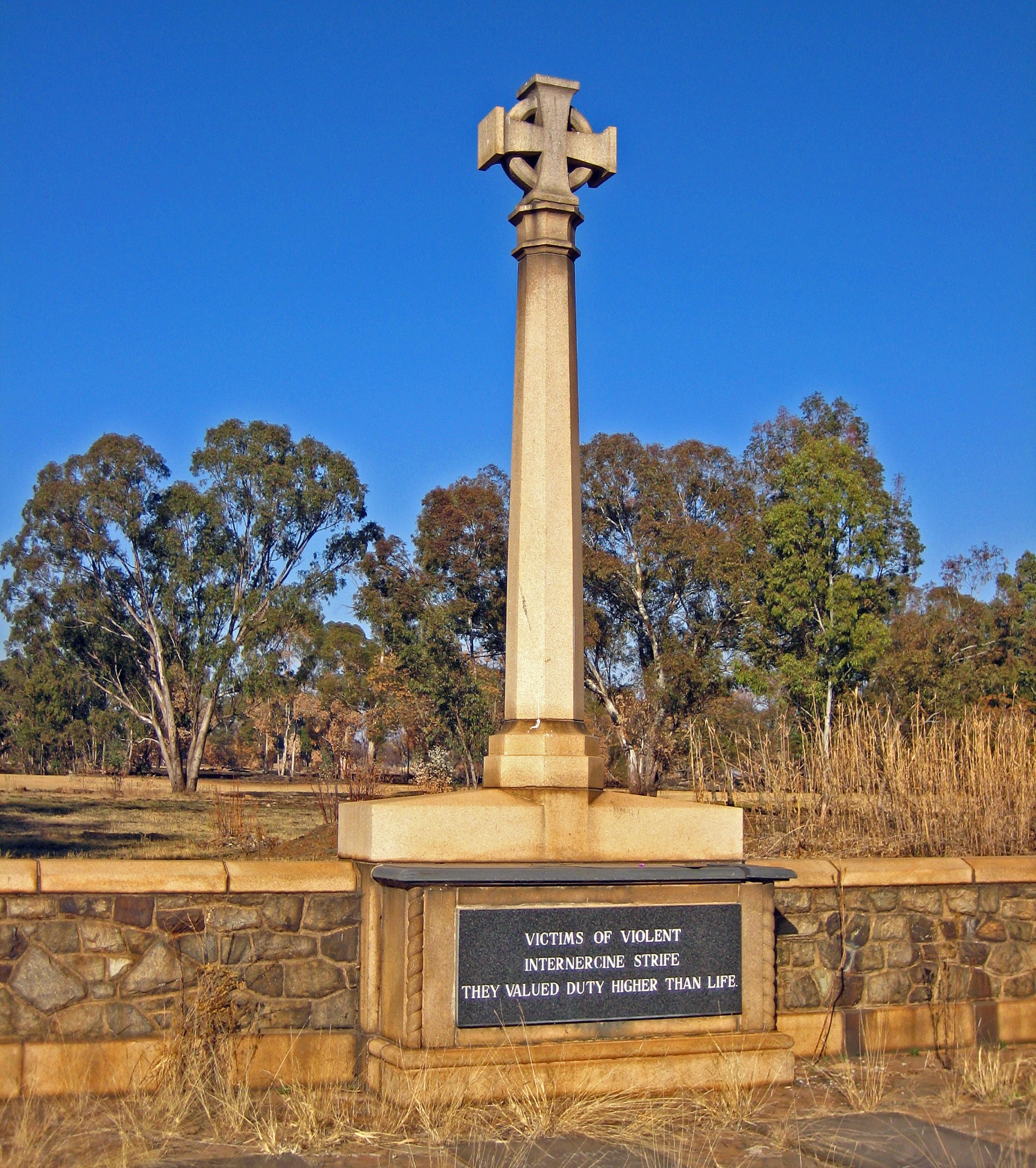 On the 09/03/1922 3 Policemen and 4 mine officials were killed on the Brakpan Mines. This was during the worst strike this country has ever known. The miners were unhappy about the work force cut backs due to the falling gold price and as one they came out on strike. It was so bad that Jan Smuts declared martial law. This memorial serves to remember the people who died on the Brakpan mines. This media shows a South African Protected Site with SAHRA file reference [1].Brakpan miners strike